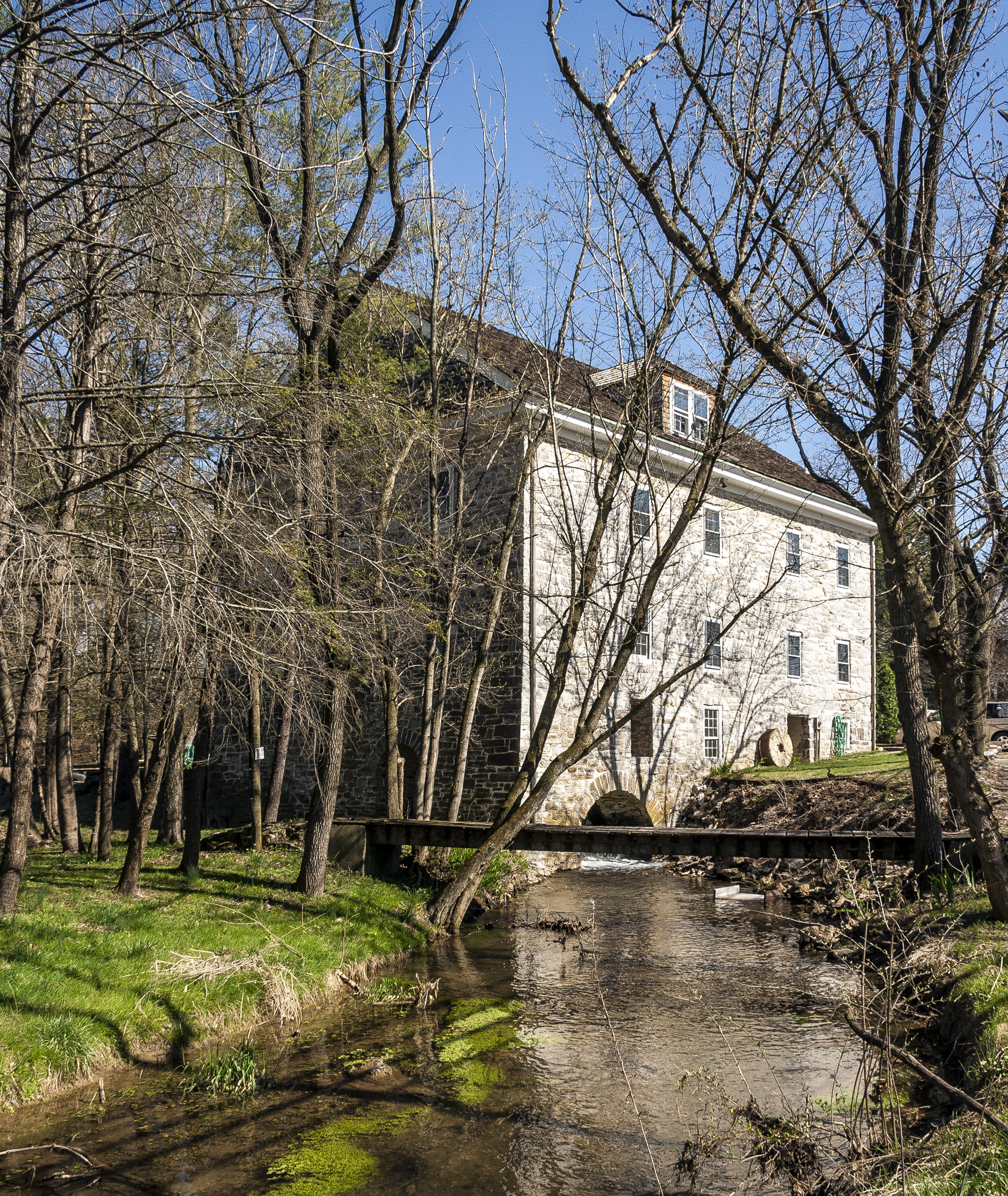 Doub's Mill Historic District, near Hagerstown, Maryland, USA